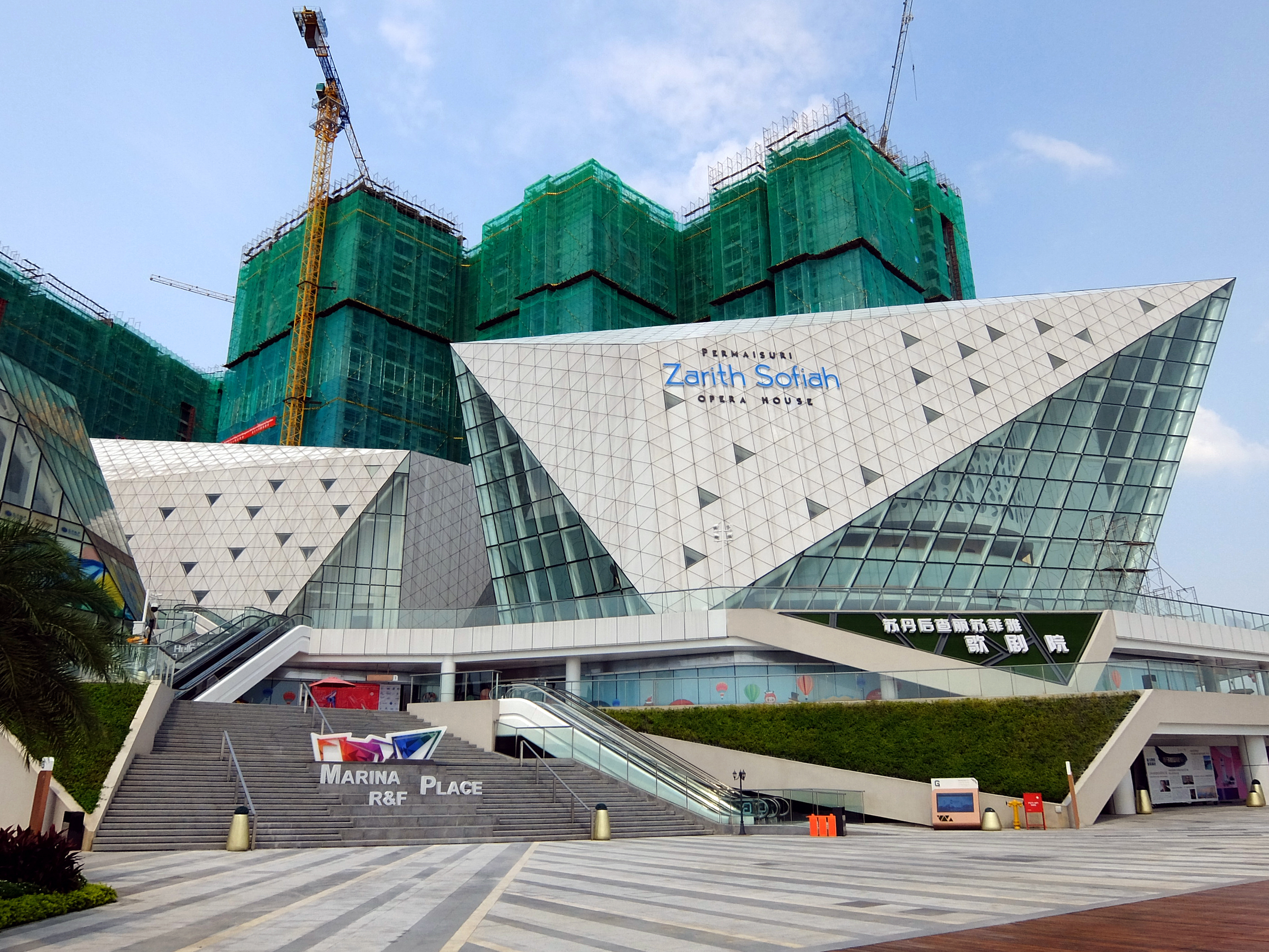 Permaisuri Zarith Sofiah Opera House, Johor Bahru, Johor, Malaysia